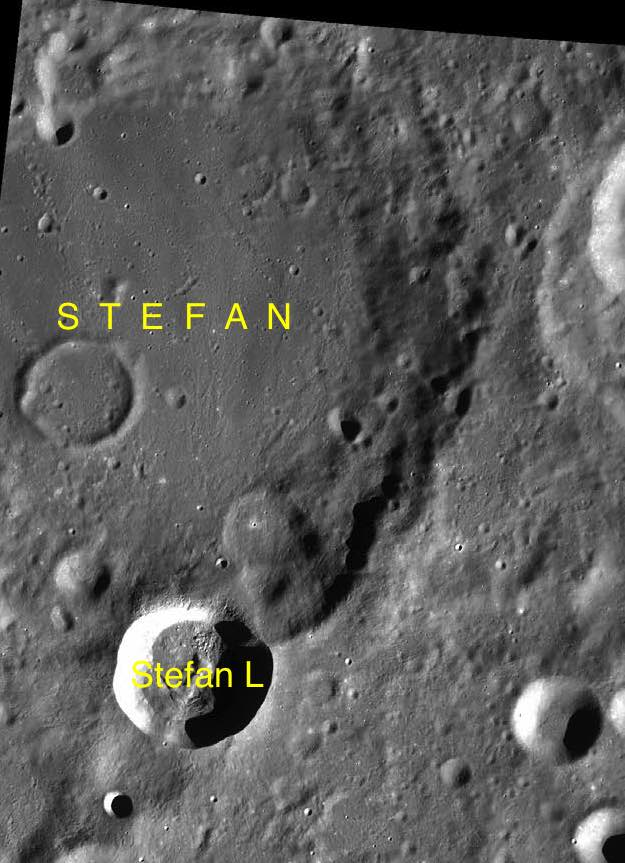 Part of the chart LAC-36 used for the presentation.